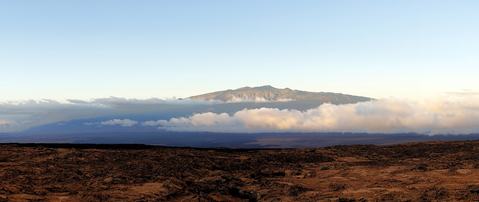 Mauna Kea, Hawaii Island. View from Mauna Loa.